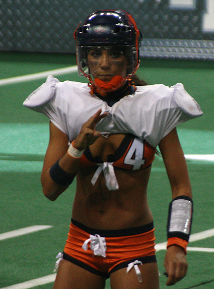 Elle Cartabiano, quarterback of the Chicago Bliss, getting the signal from the sideline of what the next play should be.